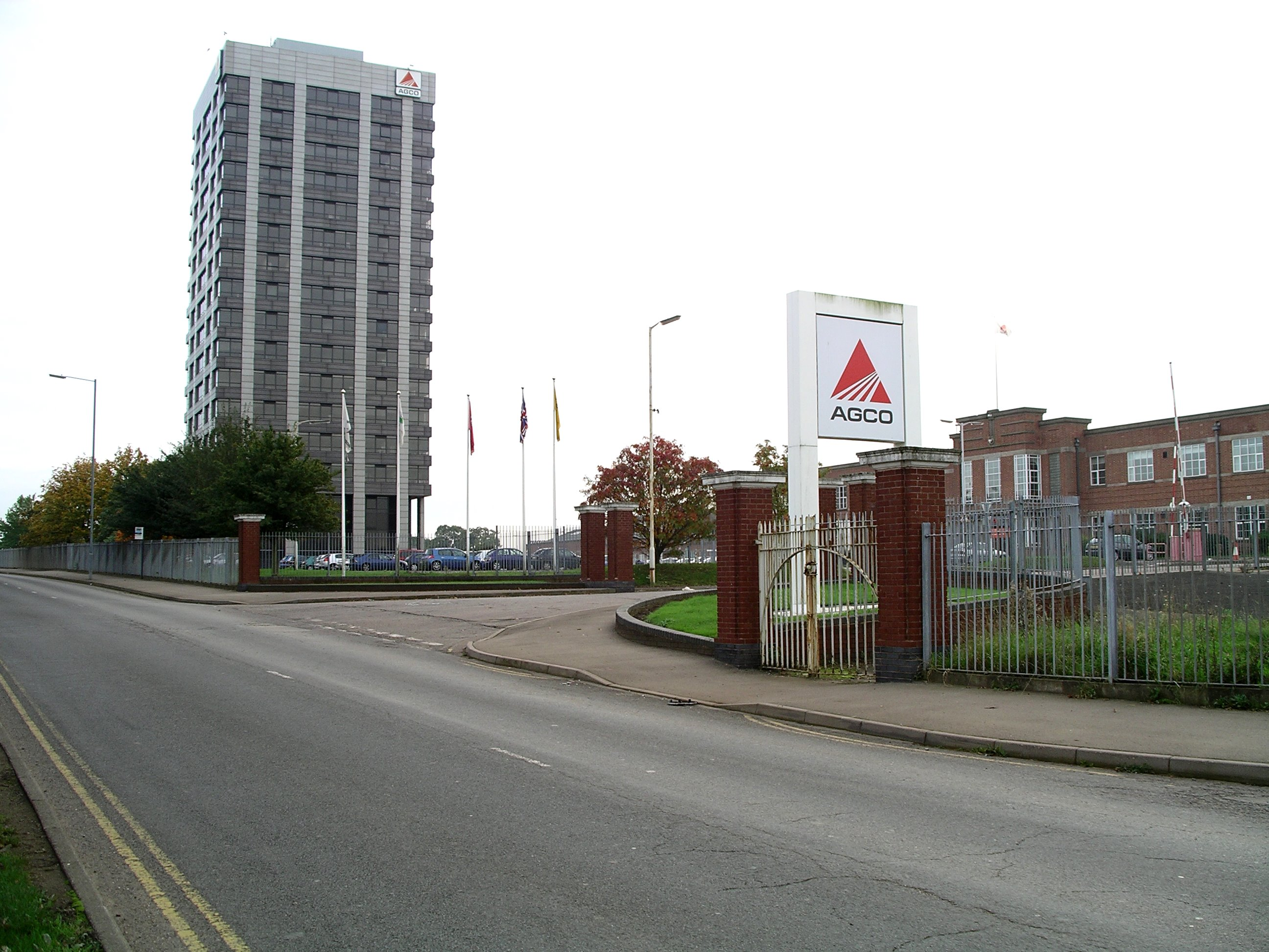 AGCO buildings (ex "Massey Ferguson tower") in Banner Lane, Coventry, England. The tower was demolished in the summer of 2012.